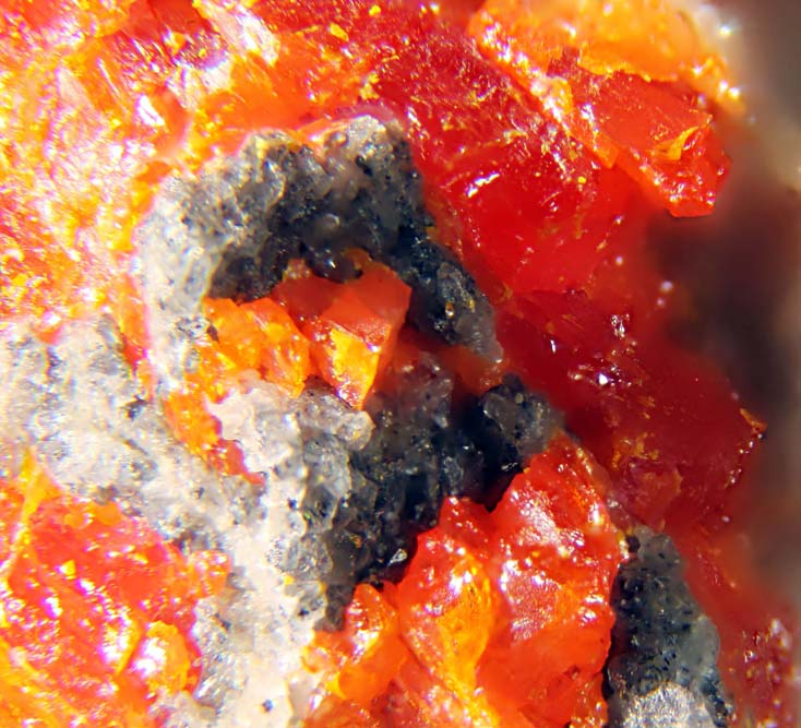 Outstanding grey crystals of the very rare mineral duranusite from the type locality (L'Eguisse Mine, Duranus, Provence-Alpes-Cote d'Azur, France), associated to realgar. Duranusite is a arsenic sulphide of rare composition As4S.